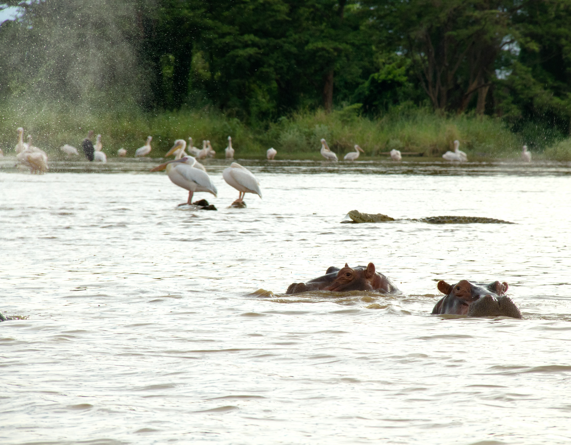 Two hippos, a crocodile, and pelicans in Lake Chama, with the spray of a third hippo